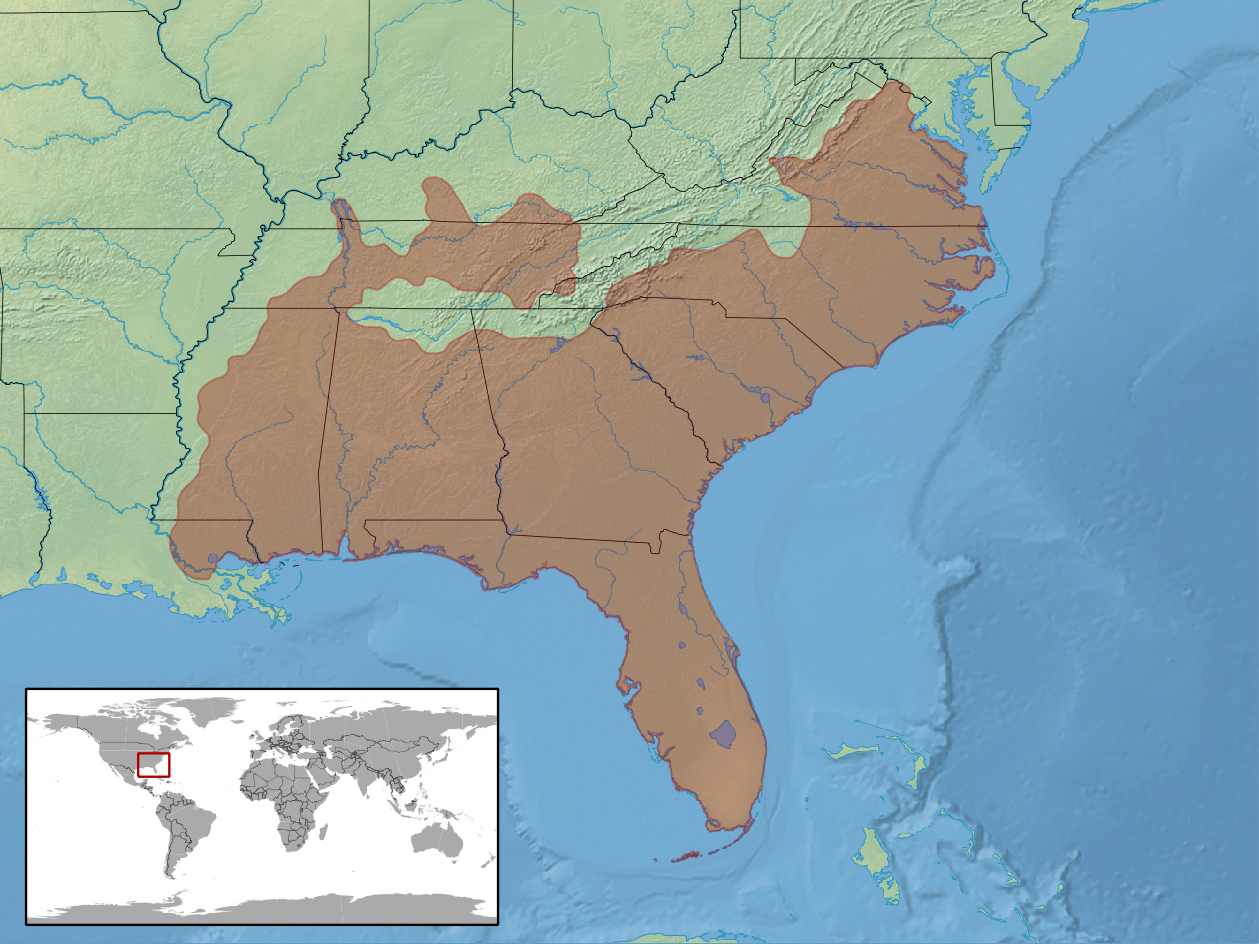 geographic distribution of Plestiodon inexpectatus, syn. Eumeces inexpectatus